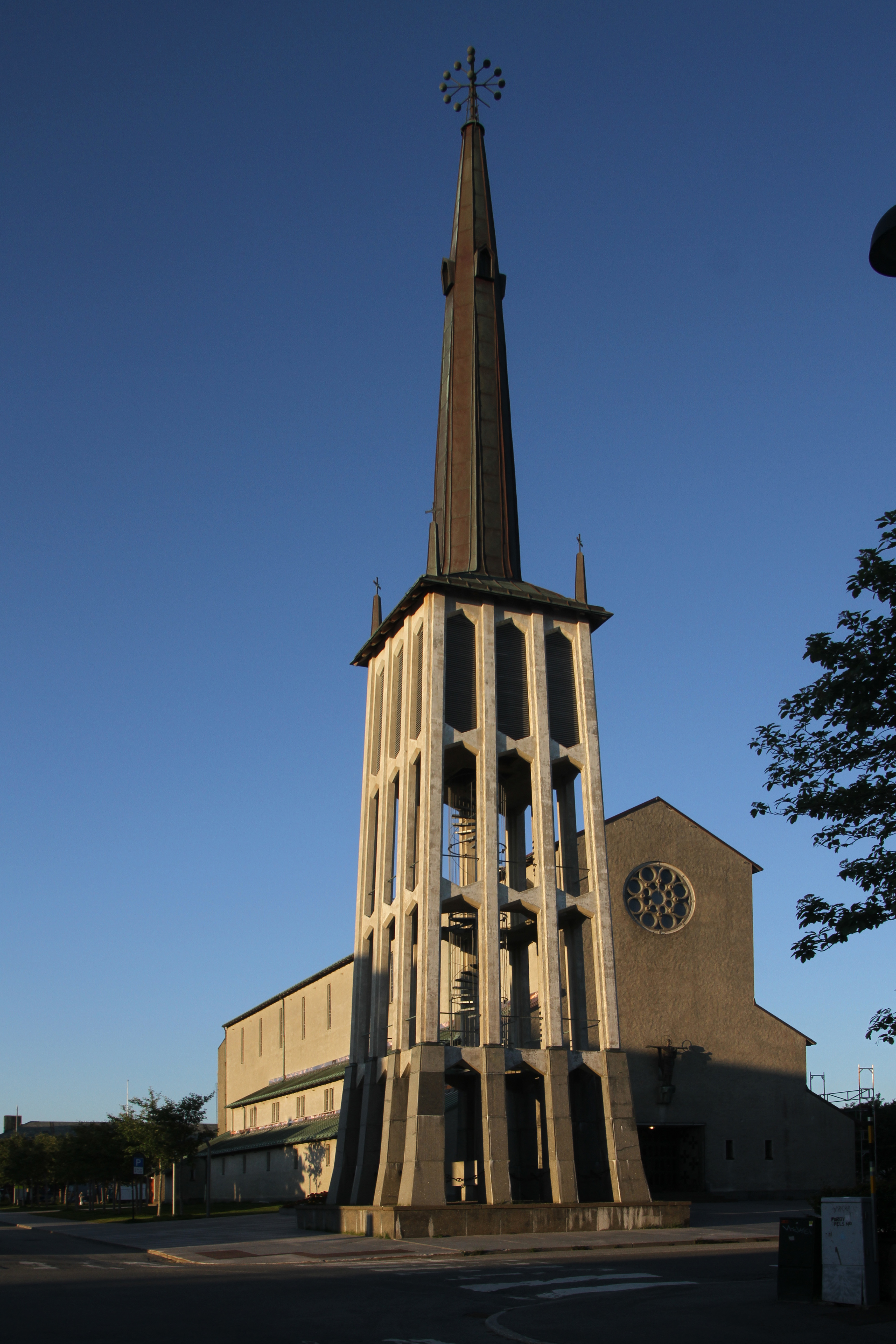 Bodø domkirke in Norway